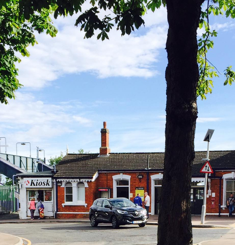 Photo of Leagrave Railway station, taken from Compton Avenue in Leagrave Village